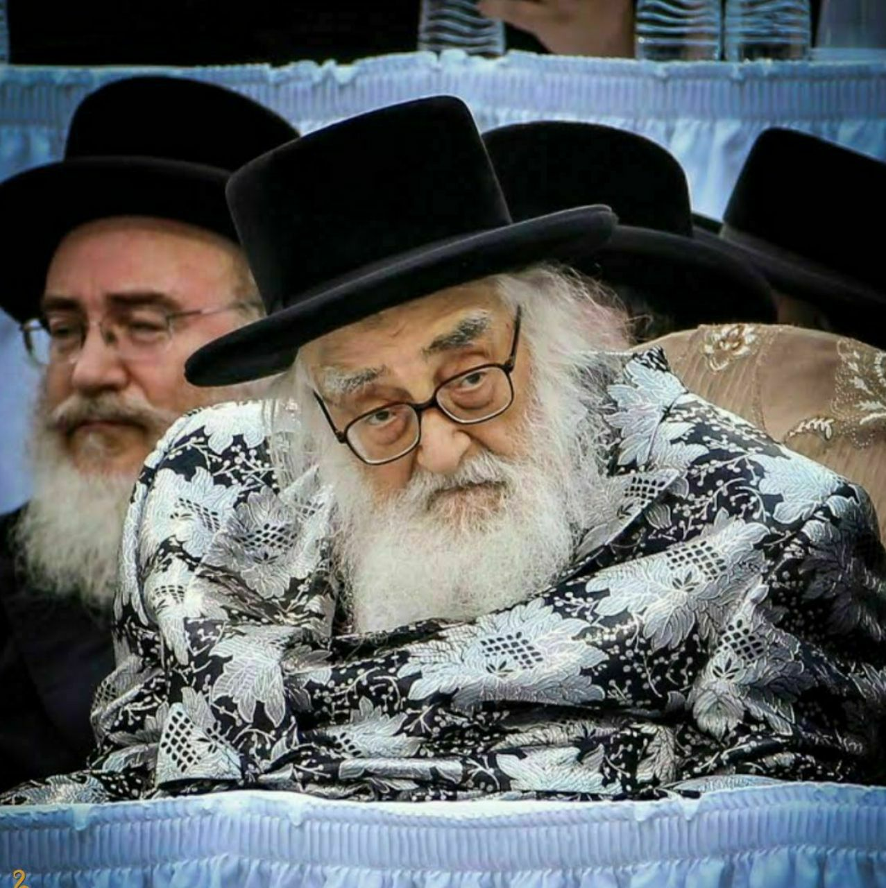 Rav Mordechai Hager, zt’l, the Vizhnitzer Rebbe